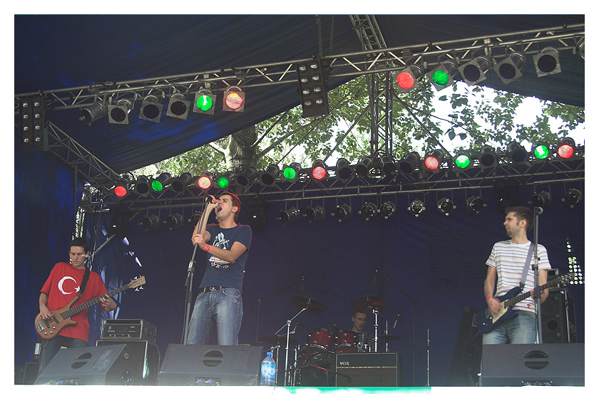 Polish band Renton performing during Off Festival 2006.